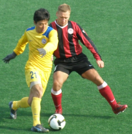 Hong Yong-Jo (21) playing against Vitaly Grishin